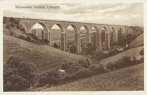 Moorswater Viaduct, Liskeard, Cornwall, after reconstruction, about 1905